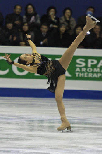 Mao Asada performs a spiral at the 2008-2009 Grand Prix Final.